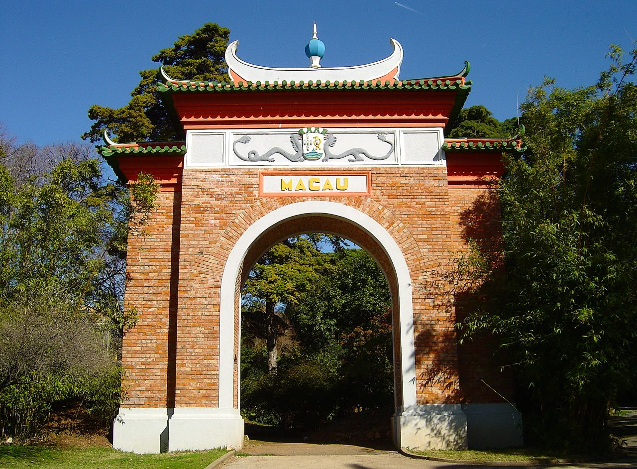 See where this picture was taken. [?]